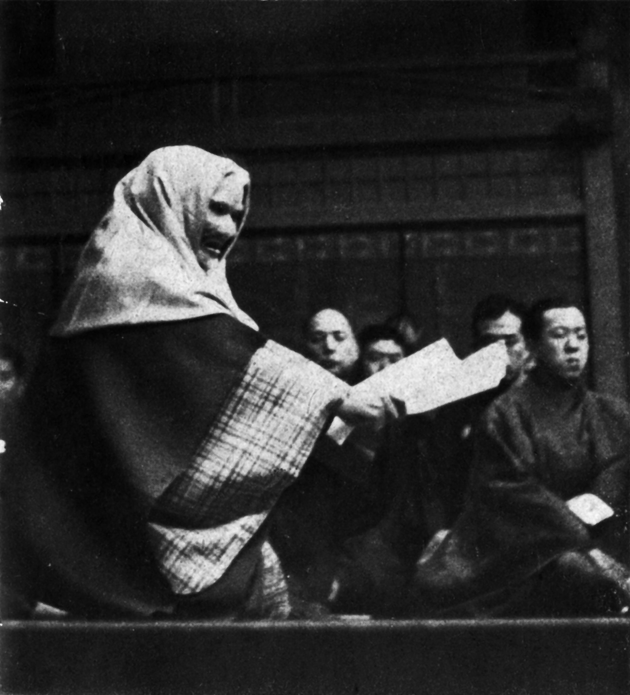 stage photo: Noh play Shunkan, NOGUCHI Kanesuke